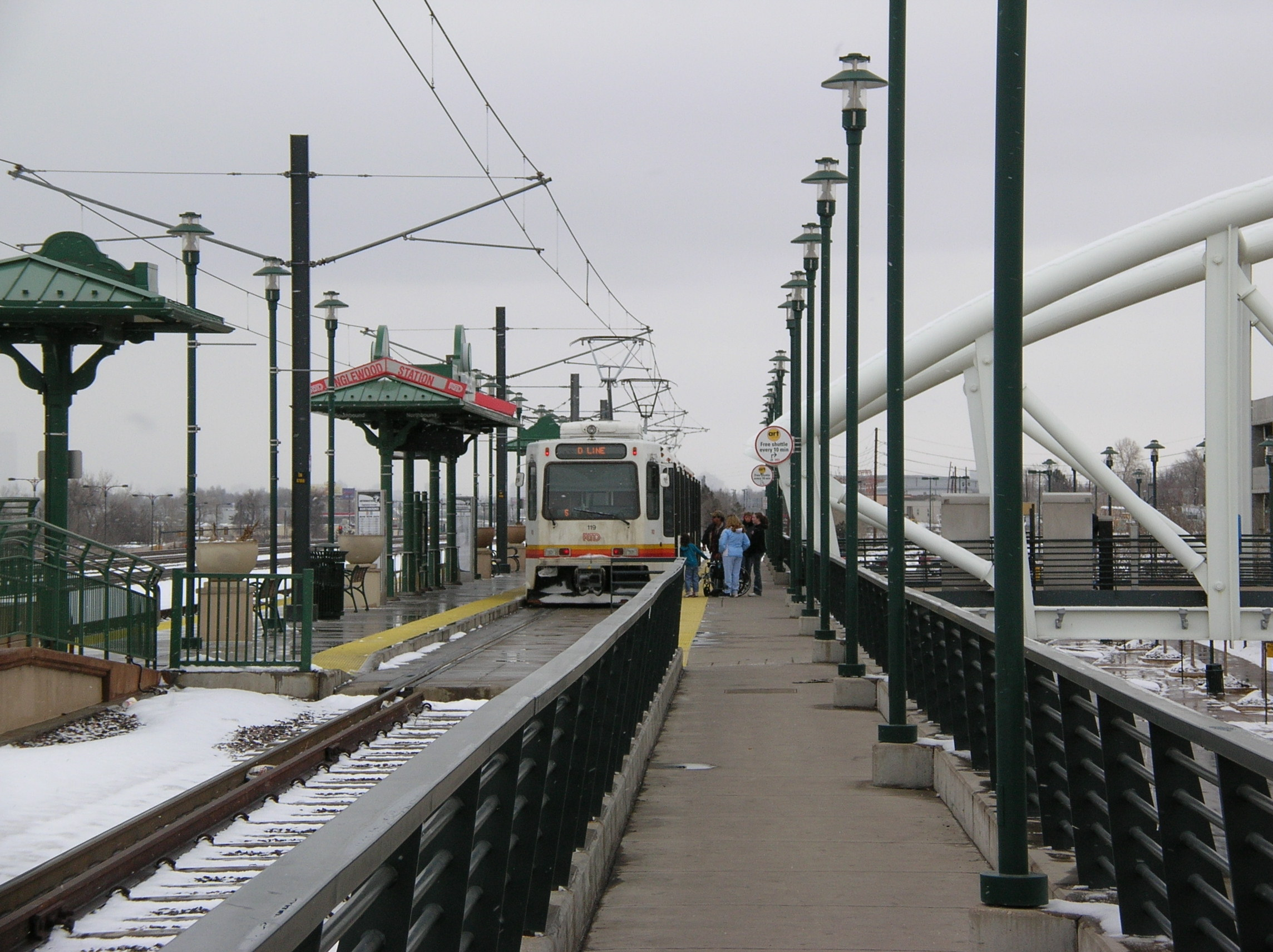 A northbound 'D-Line' train at Englewood RTD Station in Englewood, CO Taken by Geoff Hagerman on 1/27/07